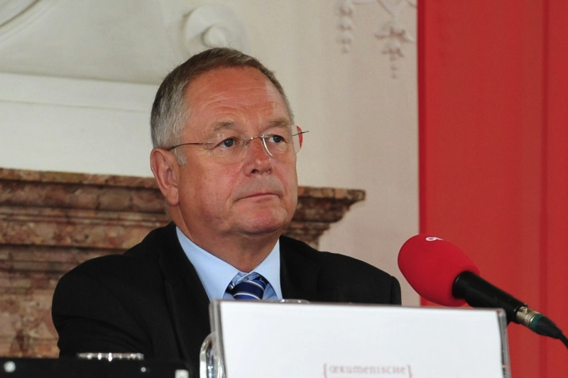 Helmut Obermayr.